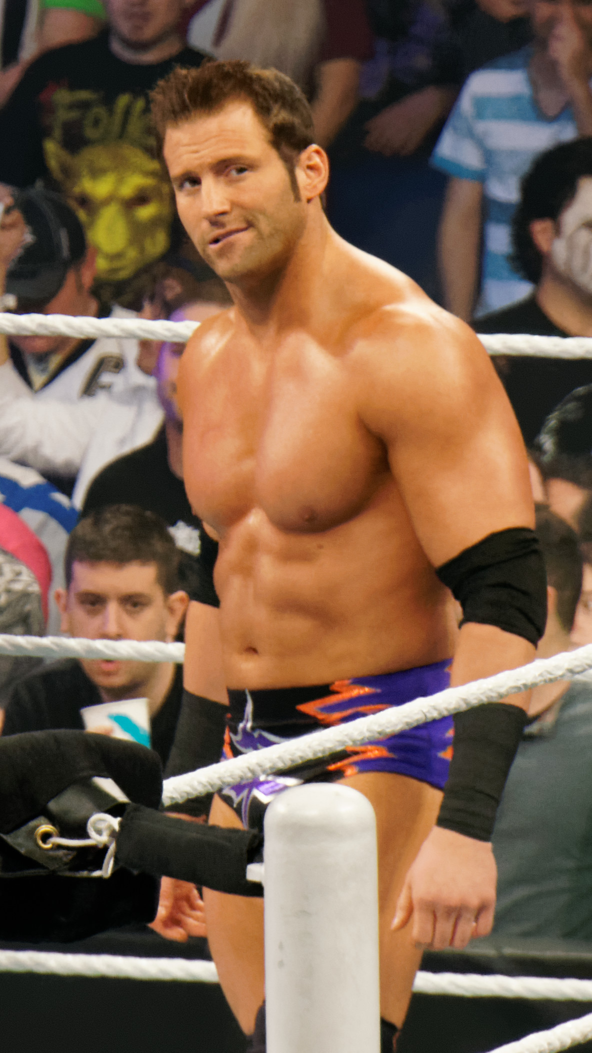 Zack Ryder at the post-WrestleMania Raw on 7 April 2014 in New Orleans, Louisiana.